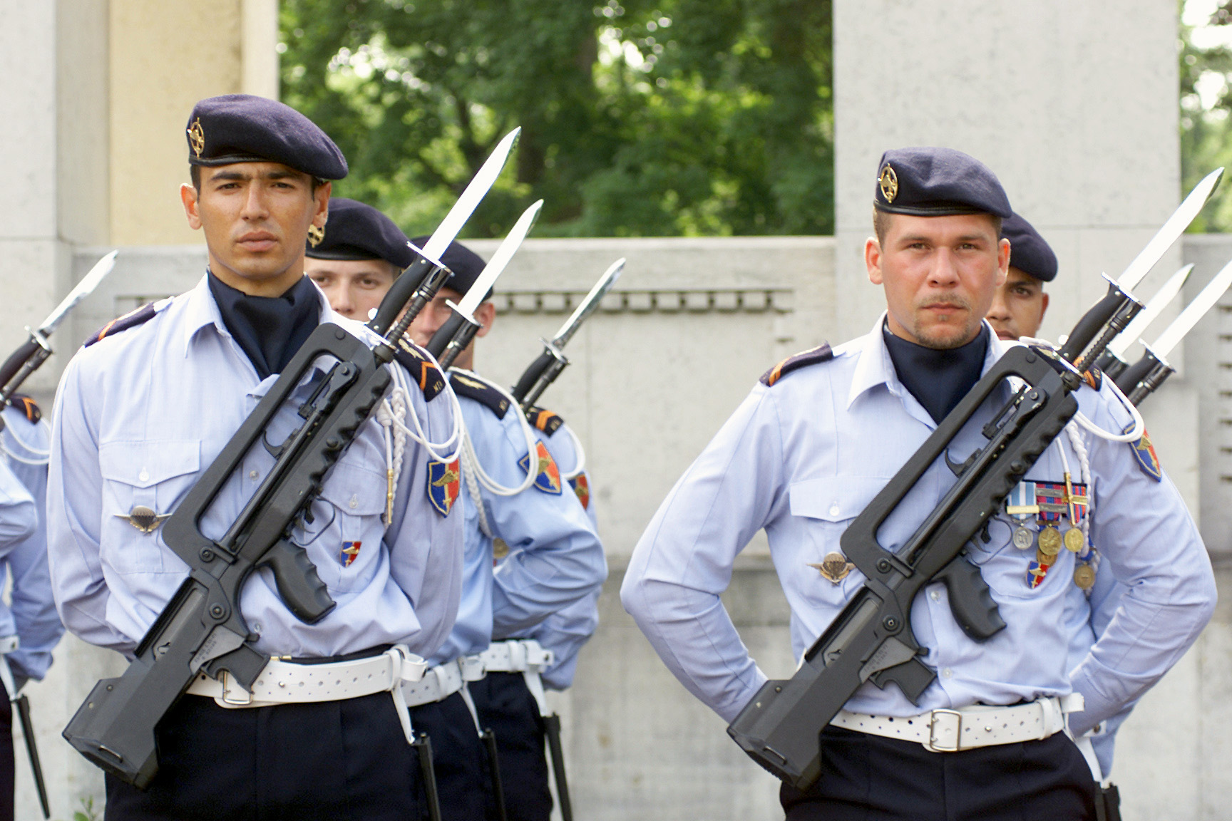 French Airforce Riflemen-commando, armed with FAMAS F1 assault rifles, participate in the Memorial Day ceremony at the LaFayette Escadrille Monument in Paris, France.